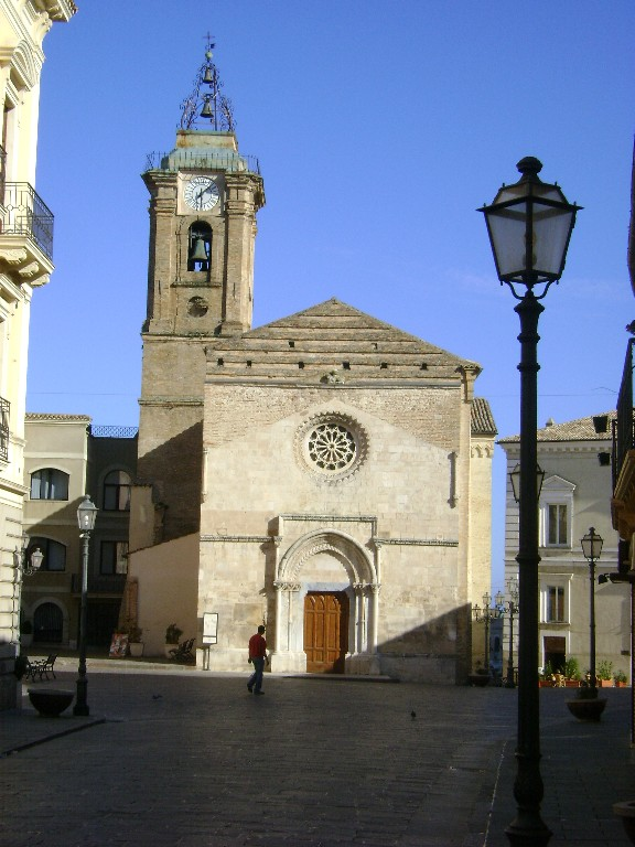 The cathedral of Saint Giuseppe to Vasto